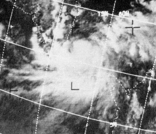 This ESSA 9 weather satellite image of Tropical Cyclone Irene was taken on September 18, 1971 at 1948 UTC